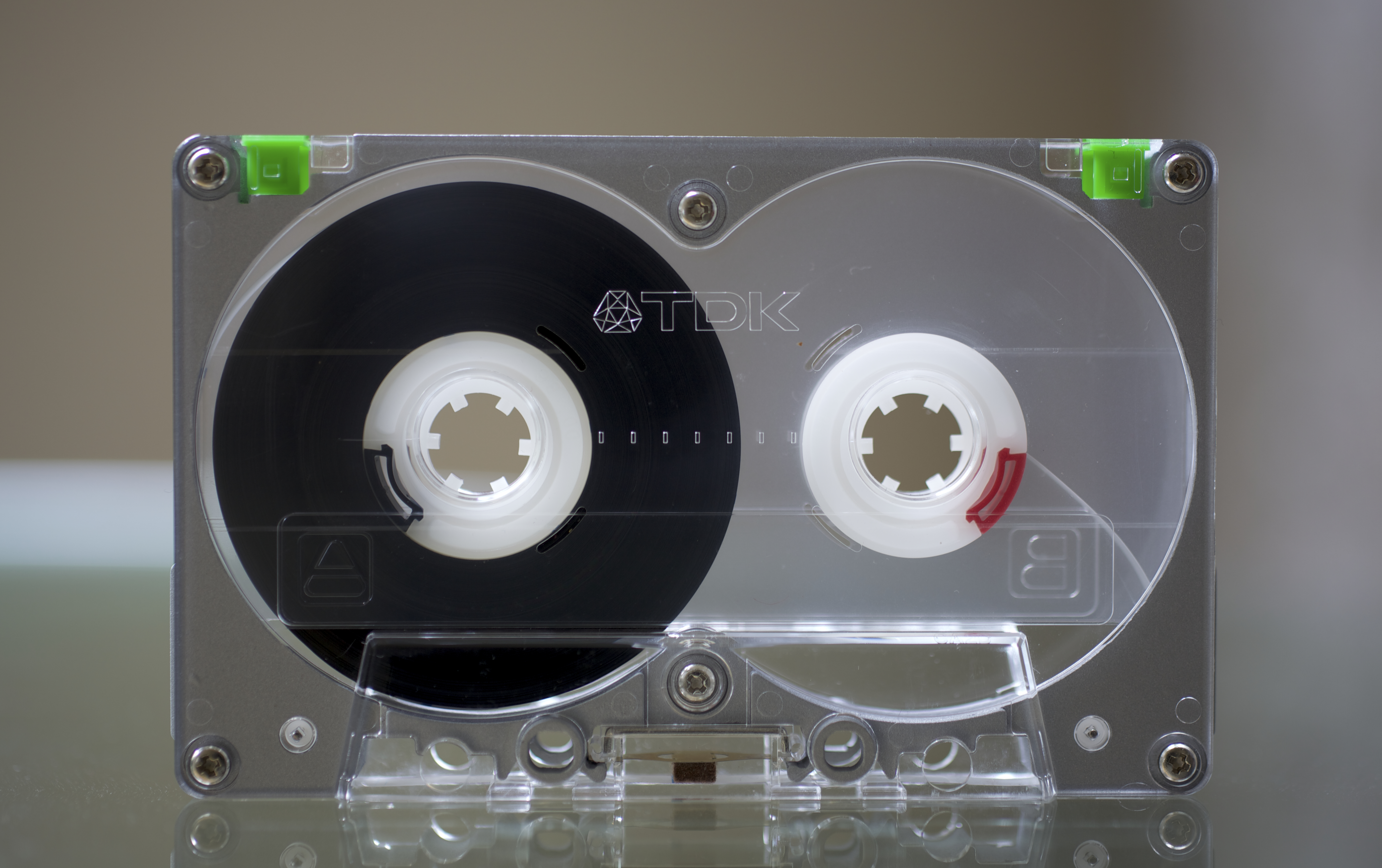 TDK MA-R90 Type IV ("Metal" position) tape from 1982. Made In Japan. These have a distinctive alloy metal frame and a thick plastic front cover.